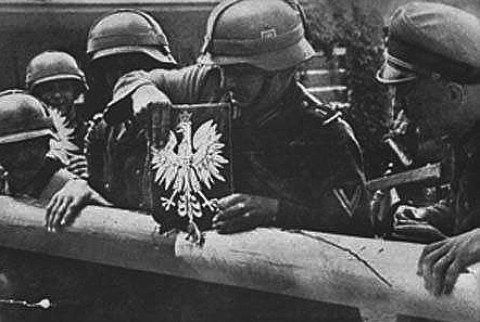 Germans invading Poland in border checkpoint at Kolibki which is the beggining of the Second World War 1 September 1939.